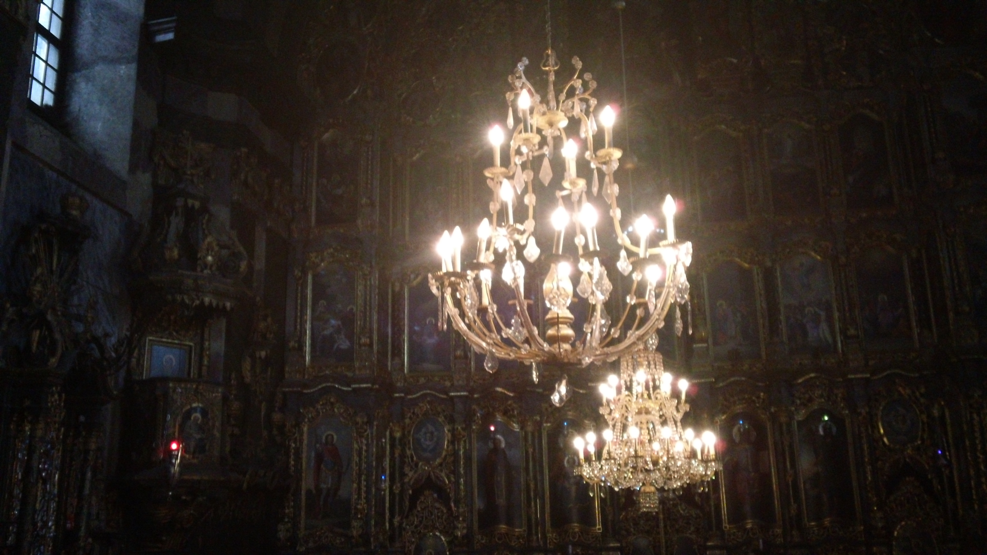 The Holy Trinity Greek Orthodox Church, Miskolc, Hungary